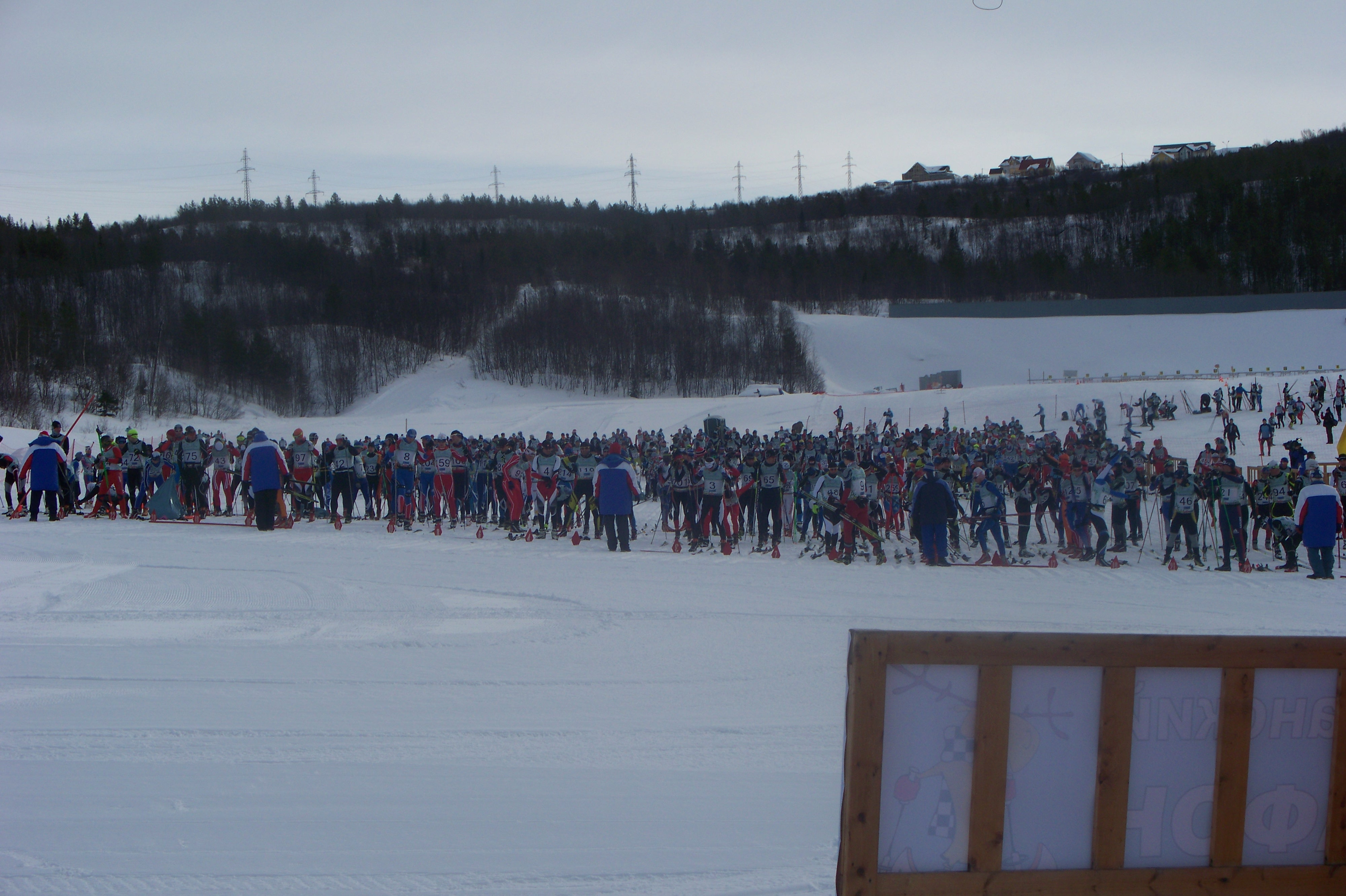 Before the start of Murmansk marathon (Traditional North Festival) 31.03.2013